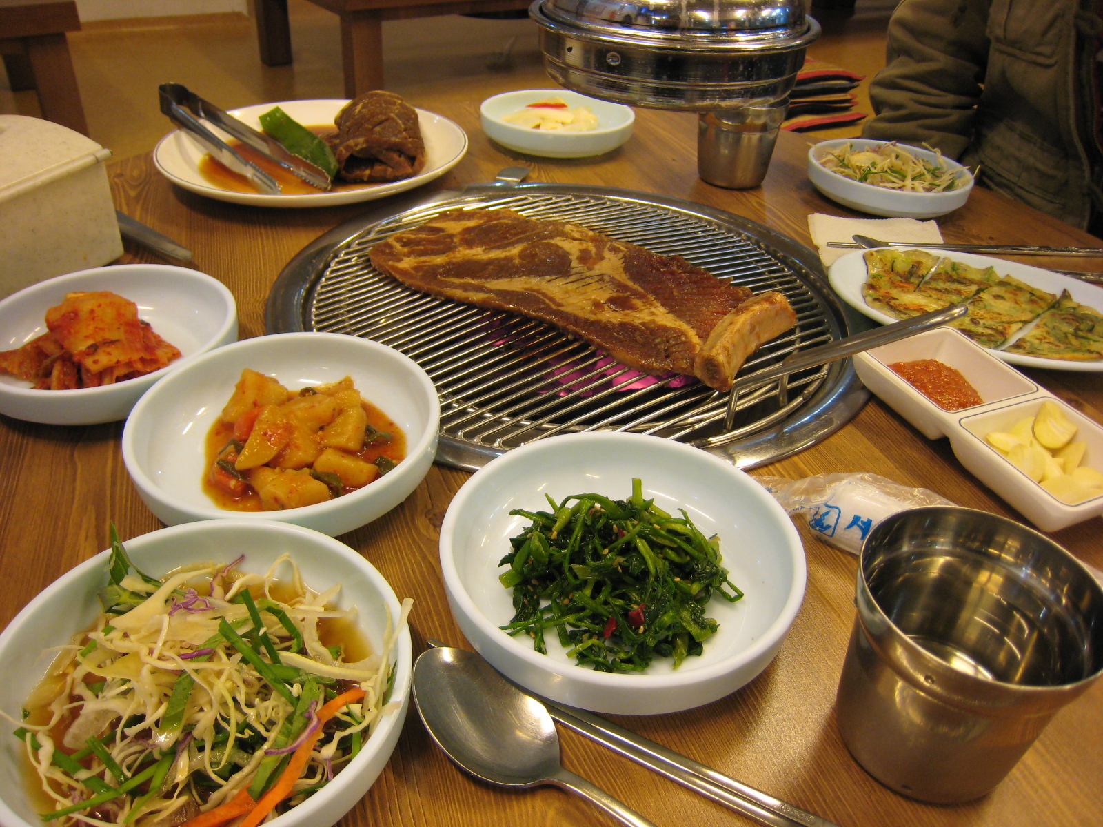 Galbi (grilled rib), a Korean bbq